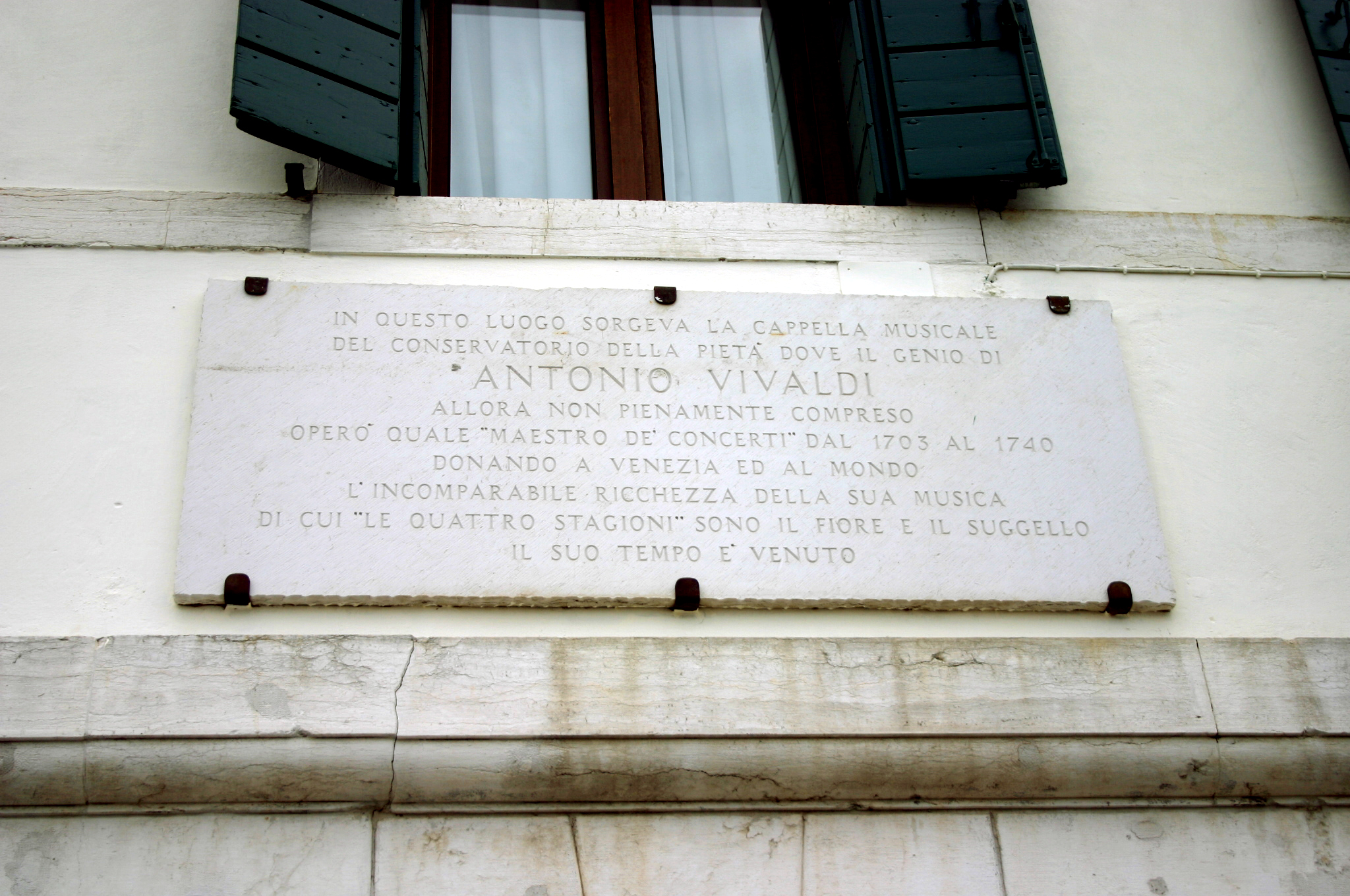 Venice, plaque commemorating composer Antonio Vivaldi beside the chiesa della Pietà church-conservatory. Vivaldi taught music in this church (and wrote music for it) for many years (1703-1740). Picture by Giovanni Dall'Orto, August 8, 2007.